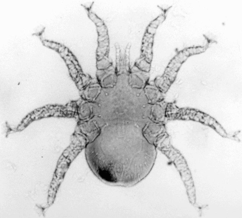 Tinaminyssus melloi, adult female. This Rhinonyssid mite was collected from the nasal cavity of a feral pigeon (Columba livia) in Budapest, Hungary.